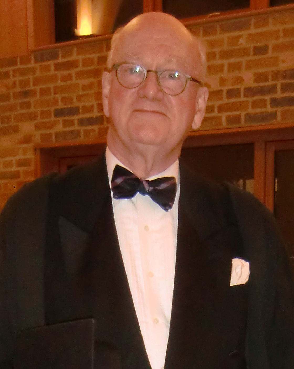 Duncan Robinson at the Magdalene College scholars' admission 2010.